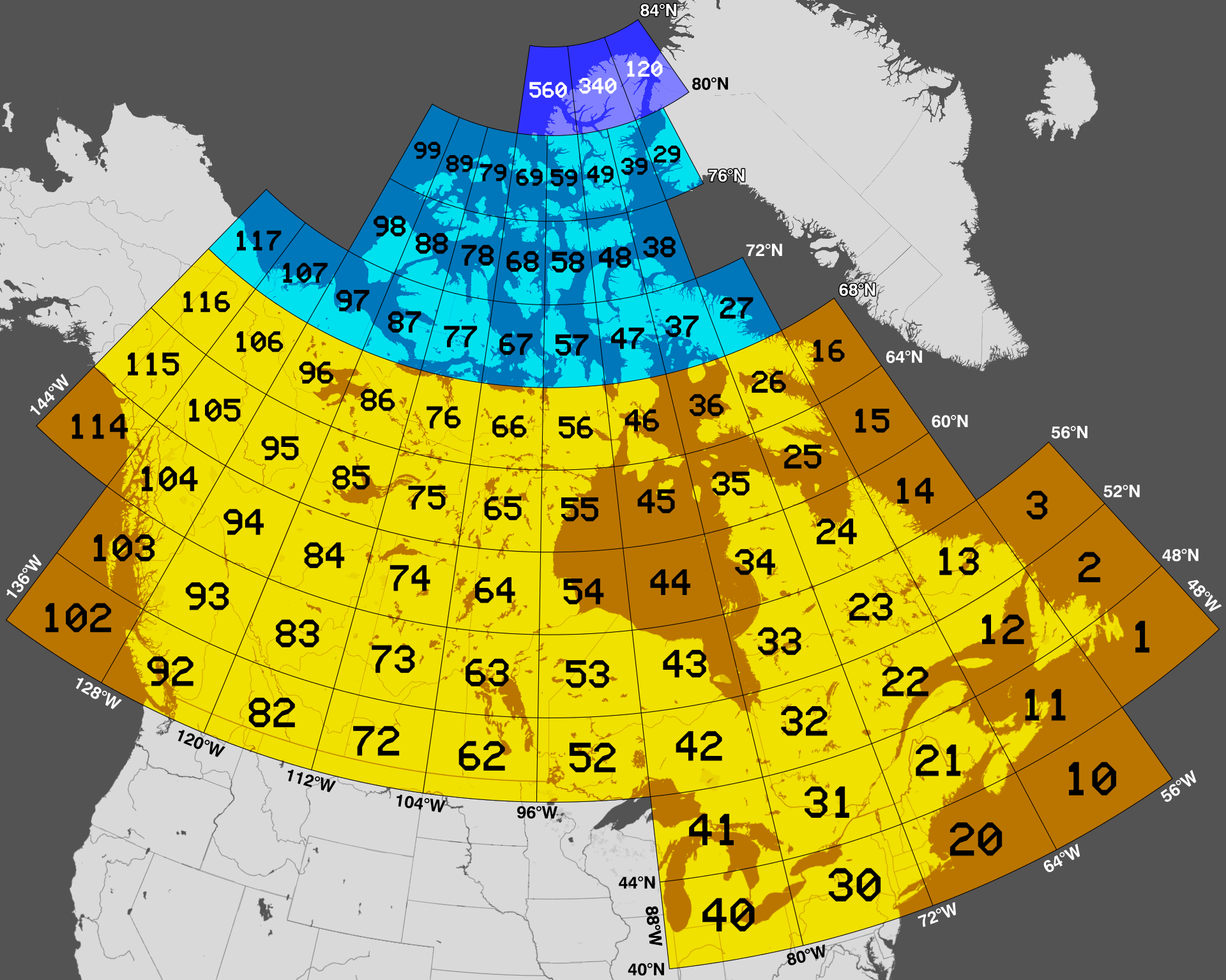 Canadian National Topographic System zones and 1:1,000,000 map series numbers. Legend: High Arctic zone Arctic zone Southern zone